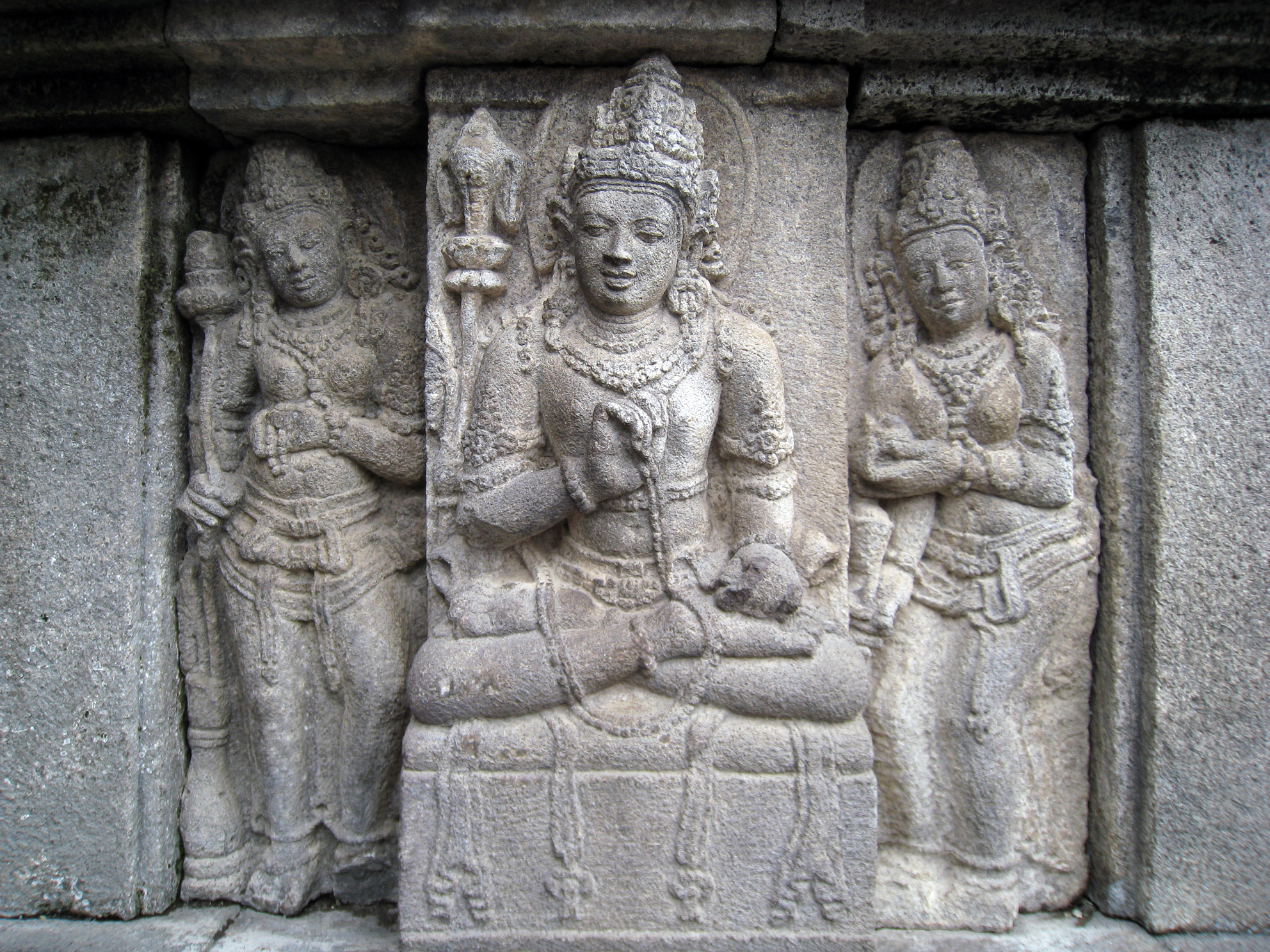 A male Hindu deity flanked on either sides by two female deities. These figures is probably devata and apsaras, the celestial maiden. The relief panel on the wall of Vishnu temple, Prambanan, Java, Indonesia.